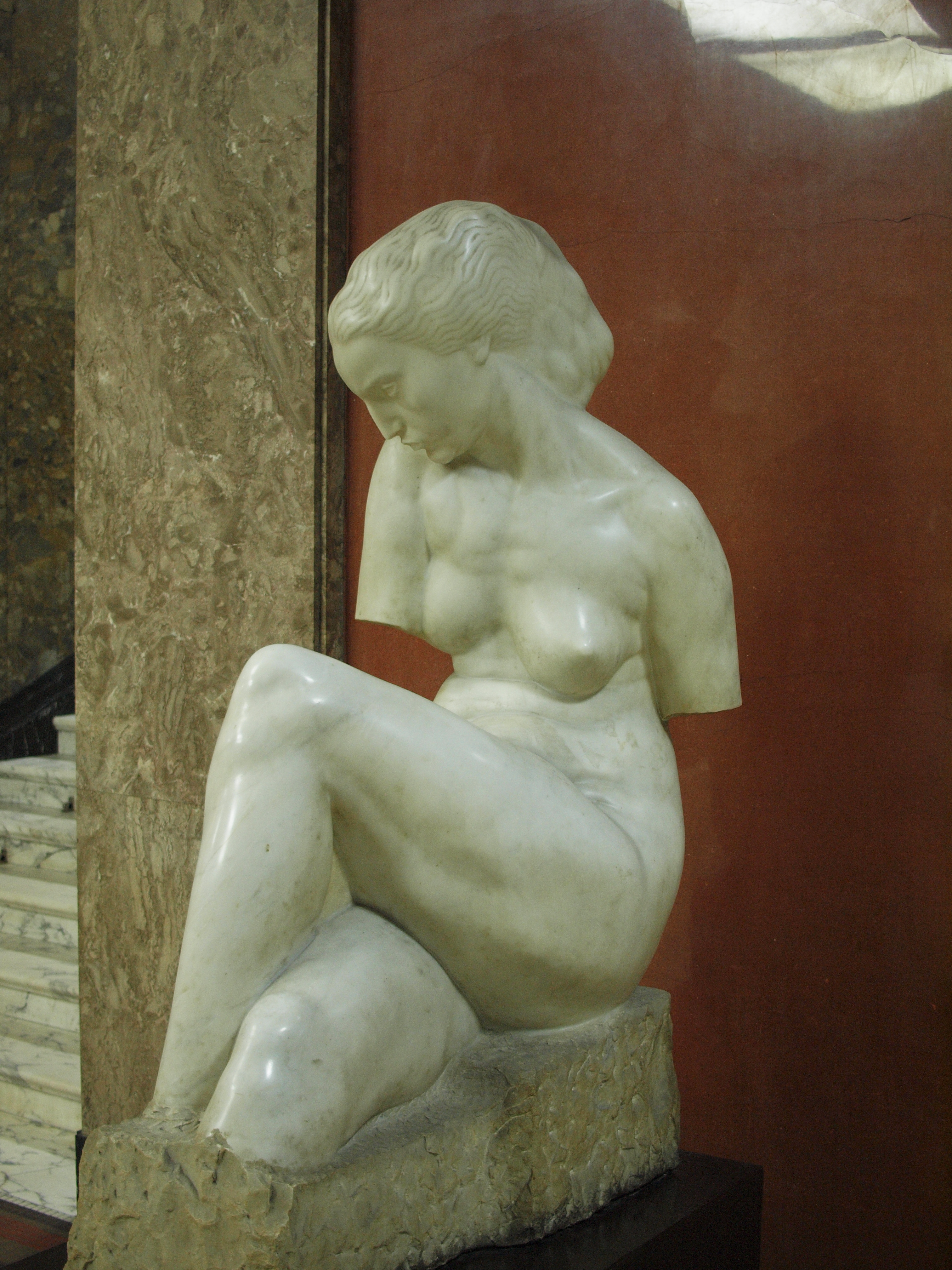 Ivan Meštrović sculpture National Museum Belgrade